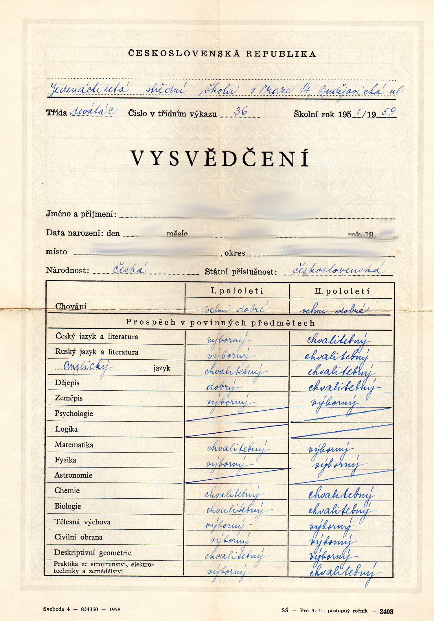 Czech school certificate